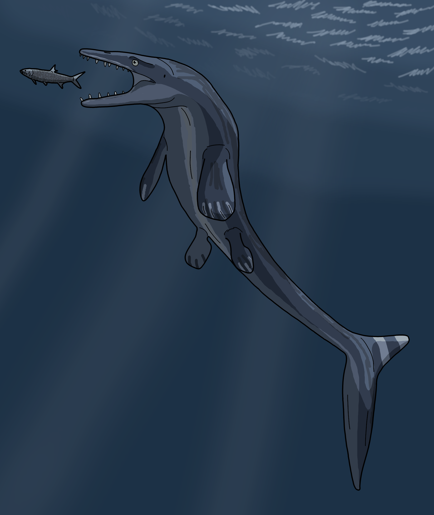 Life restoration of Selmasaurus johnsoni based on the restored skull, and the postcranial skeleton of related Plesioplatecarpus. Fish is based on the tarpon, relatives of which lived in the Mooreville Chalk alongside Selmasaurus. Colouration speculative, soft tissues based on known mosasaur remains.